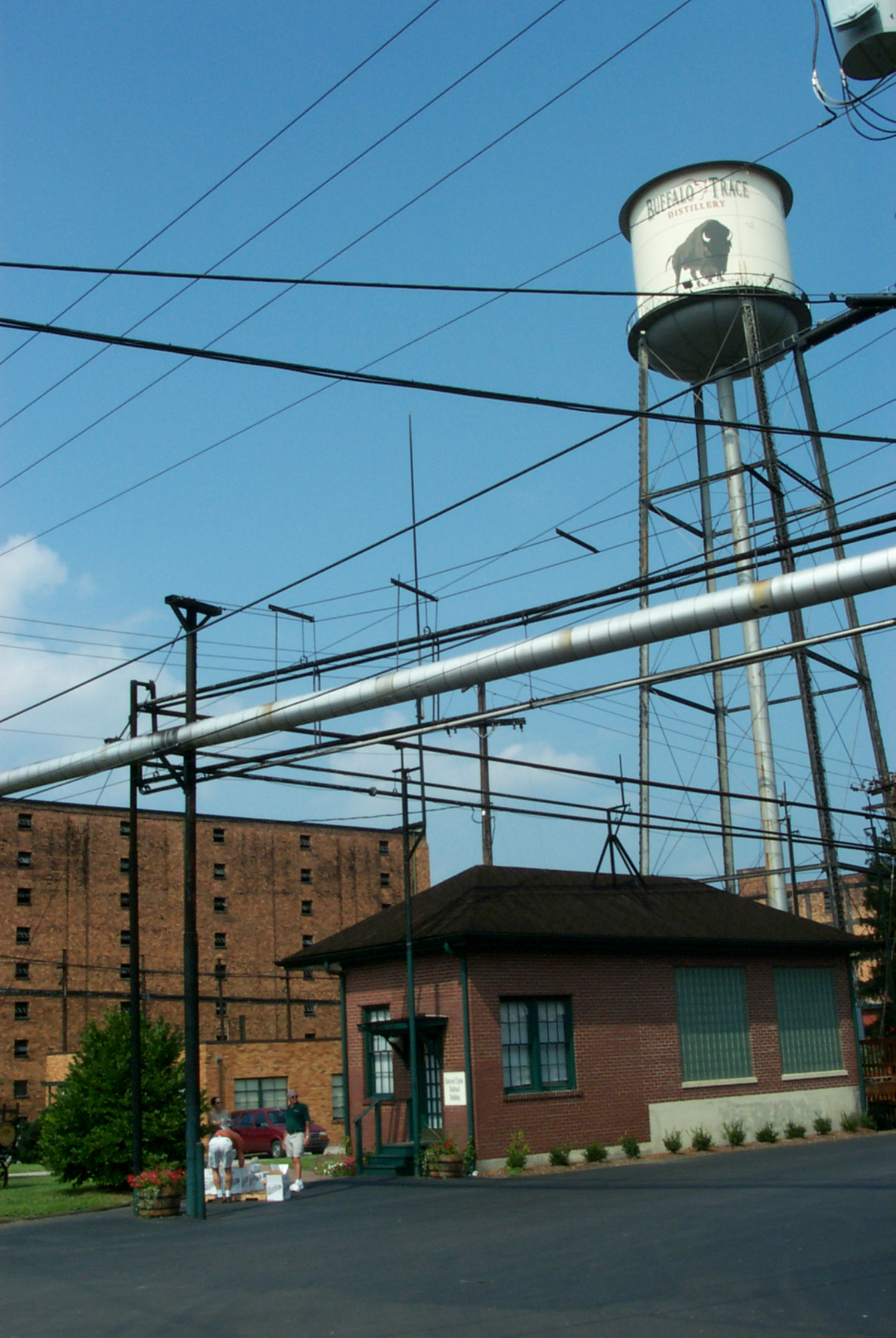 This image was copied from en. The original description was:Buffalo Trace Distillery Frankfort, Kentucky USA.